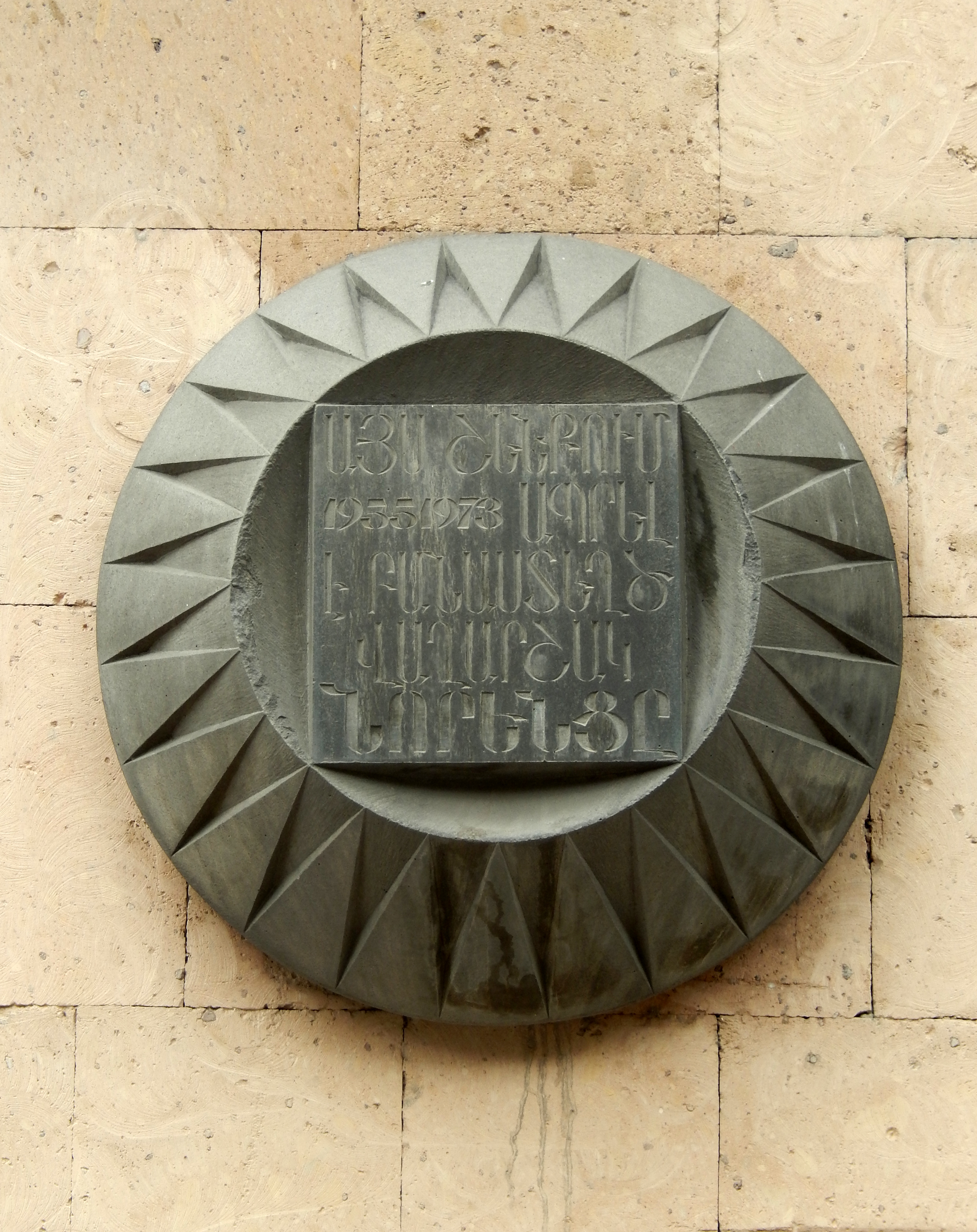 Vagharshak Norents' plaque in Yerevan